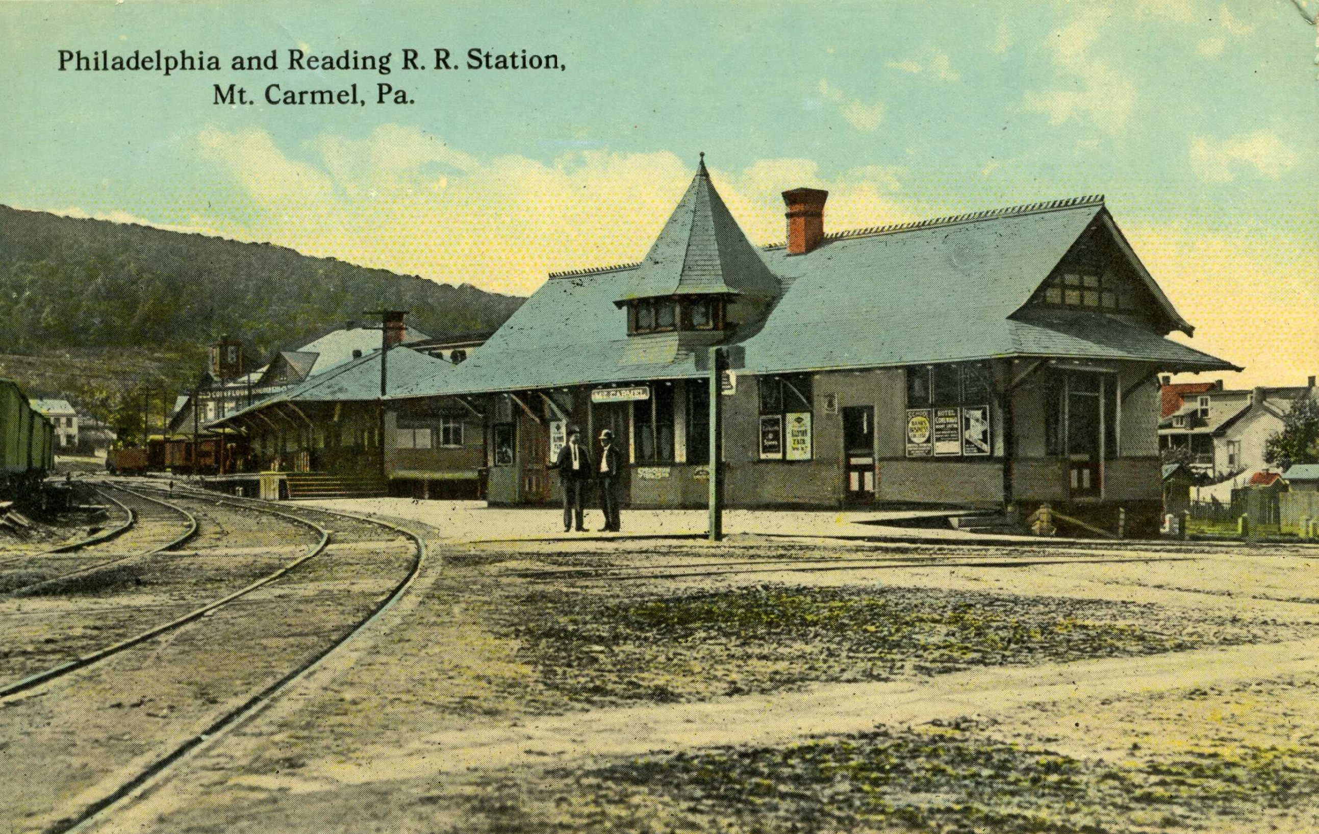 UMass Amherst Library metadata follows: Postcard: Philadelphia and Reading R. R. Station, Mt. Carmel, Pa., ca. 1917 From a series of images of a Polish American family from Easthampton, Mass. PLACE Mount Carmel (Pa.) EXTENT 1 postcard : 14 x 9 cm. LANGUAGE English SUBJECT(S) Railroad stations--Pennsylvania--Mount Carmel--Photographs Mount Carmel (Pa.)--Photographs Polish Americans--Massachusetts--Easthampton--Photographs GENRE Postcards CITE AS: Postcard: Philadelphia and Reading R. R. Station, Mt. Carmel, Pa., ca. 1917. Lesinksi-Rusin Family Collection (MS 131). Special Collections and University Archives, University of Massachusetts Amherst Libraries LOCATION Special Collections and University Archives, University of Massachusetts Amherst Libraries MS 131 IDENTIFIER mums131-b02-f09-i012 PERMALINK